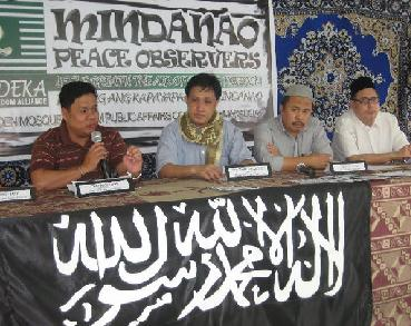 Moro peace activists put forth Mindanao peace agenda